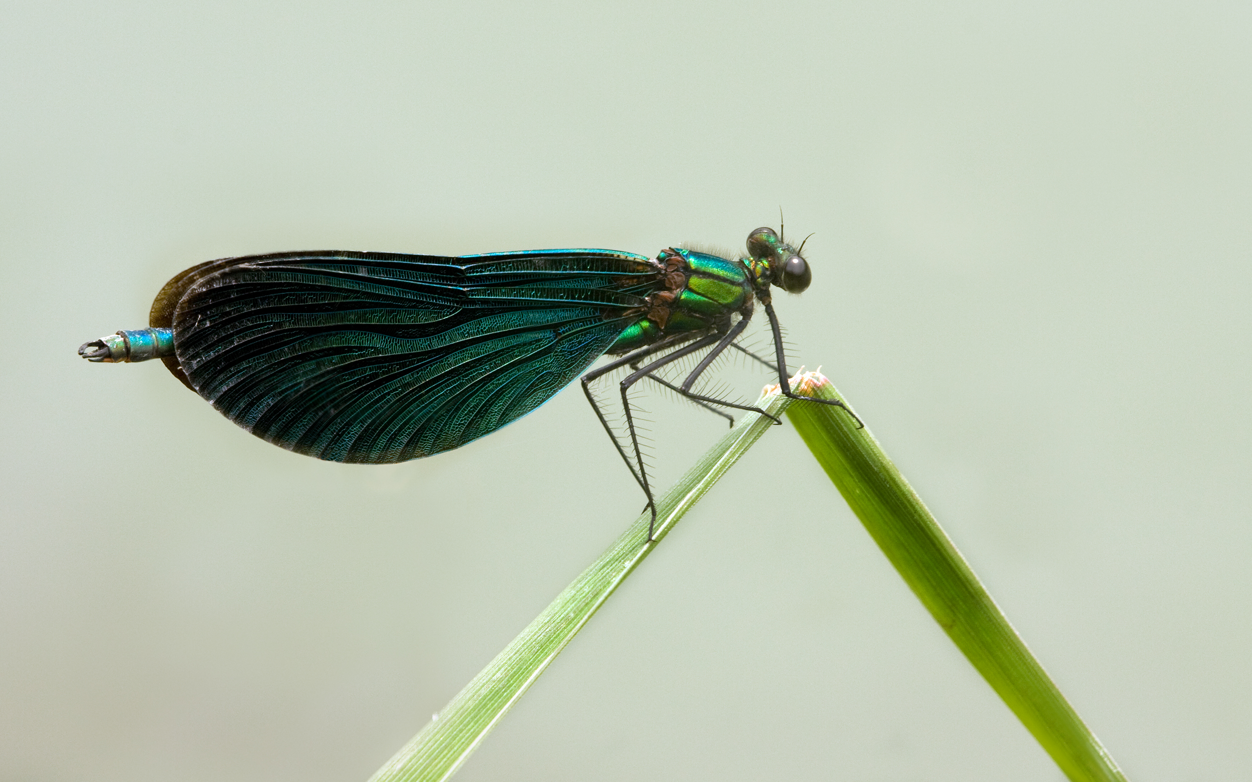 The Beautiful Demoiselle (Calopteryx virgo) of family (Calopterygidae) is a European damselfly. It is often found among fast-flowing waters. Found in Baierbrunn, Isarkanal, Munich, Germany.